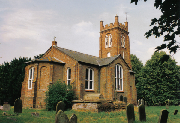 Eastville parish church, Lincs. – built in 1840 in near isolation 1½ miles north of the village and dedicated to St Paul.